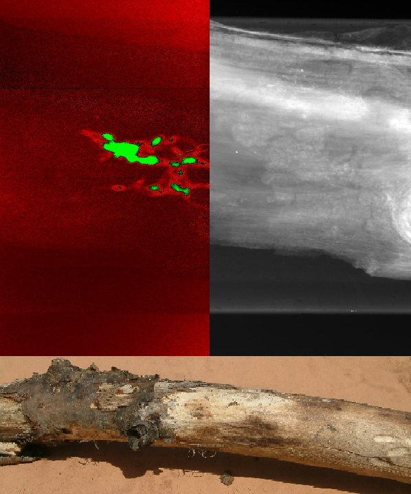 Kinetic image of worms inside a trunk of a tree Left: Kinetic image of the moving worms Right: ordinary radiographic image of the same trunk